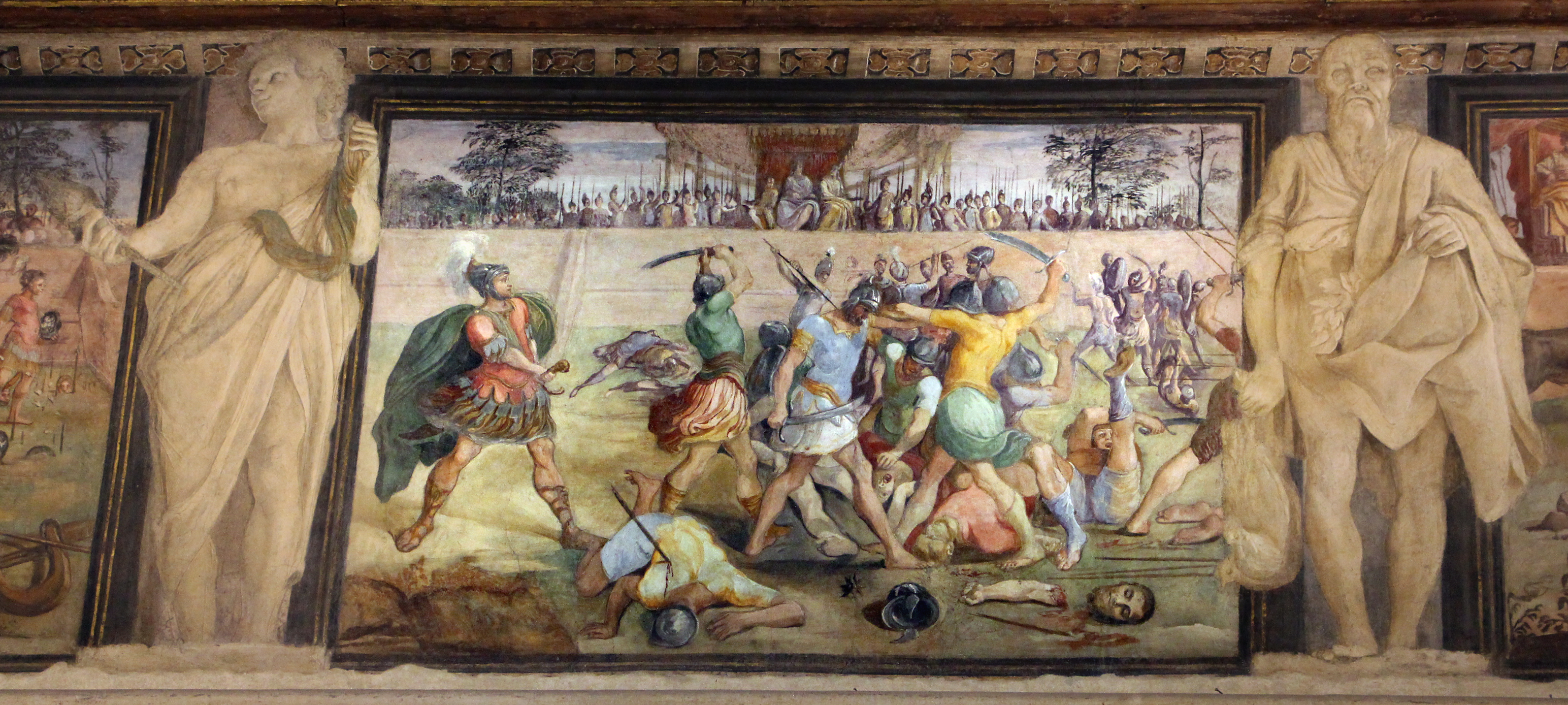 Frieze of Jason and Medea